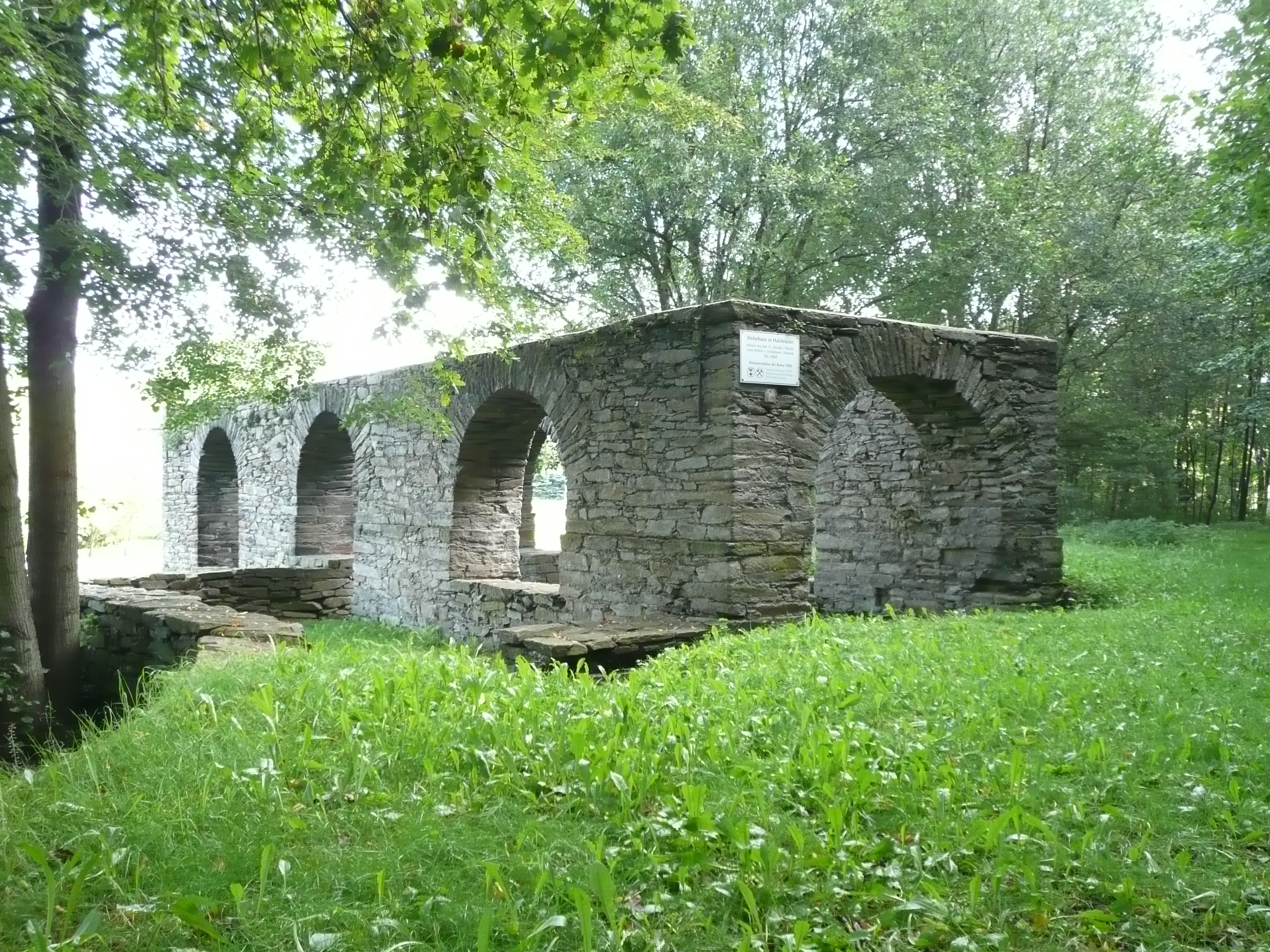 Kahnhebehaus (tub boat lift), near Halsbrücke, Erzgebirge